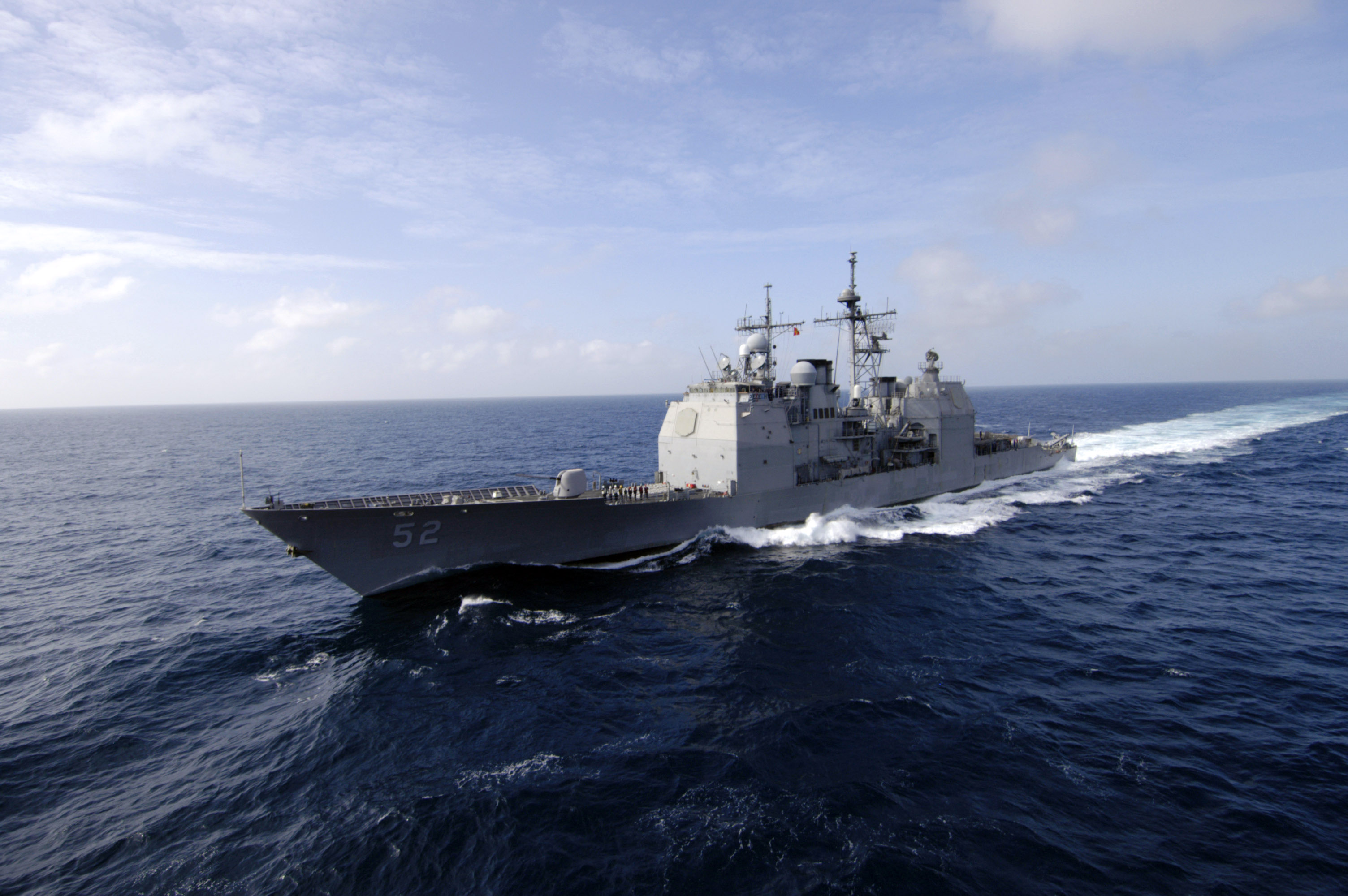 The Ticonderoga-class guided missile cruiser USS Bunker Hill (CG 52) pulls alongside the Nimitz-class aircraft carrier USS Dwight D. Eisenhower (CVN 69) for a fueling at sea (FAS) in the Indian Ocean. Eisenhower and embarked Carrier Air Wing Seven (CVW-7) are on a regularly scheduled deployment in support of Maritime Security Operations (MSO).